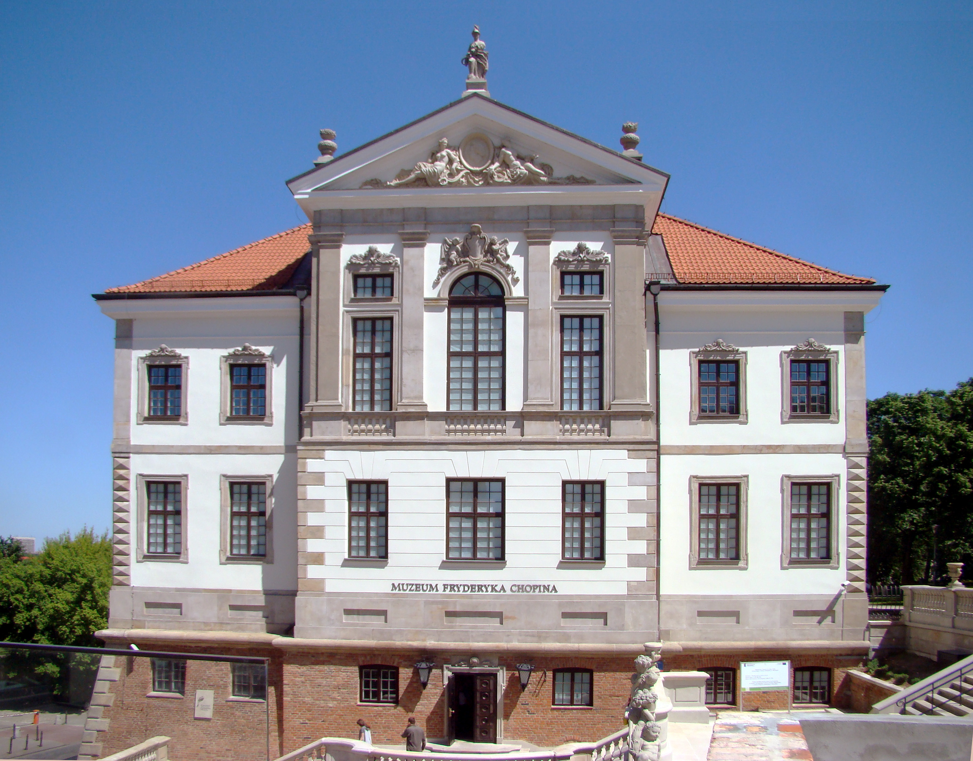 Ostrogski Palace Chopin Museum Warsaw